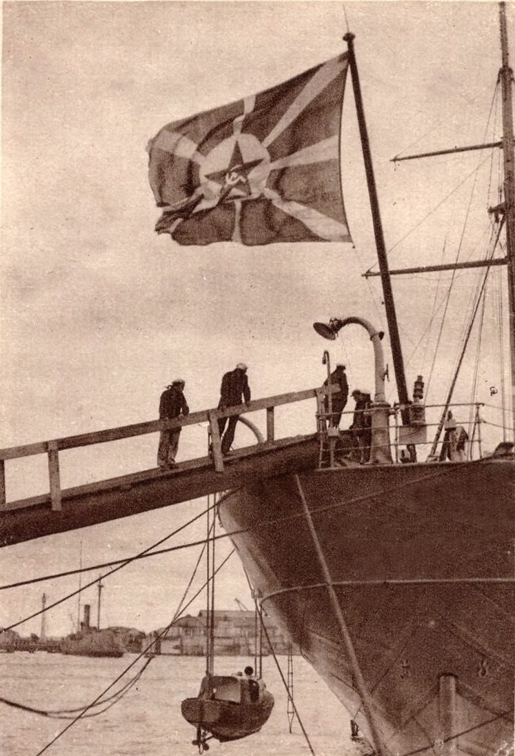 Soviet ship Komsomolets